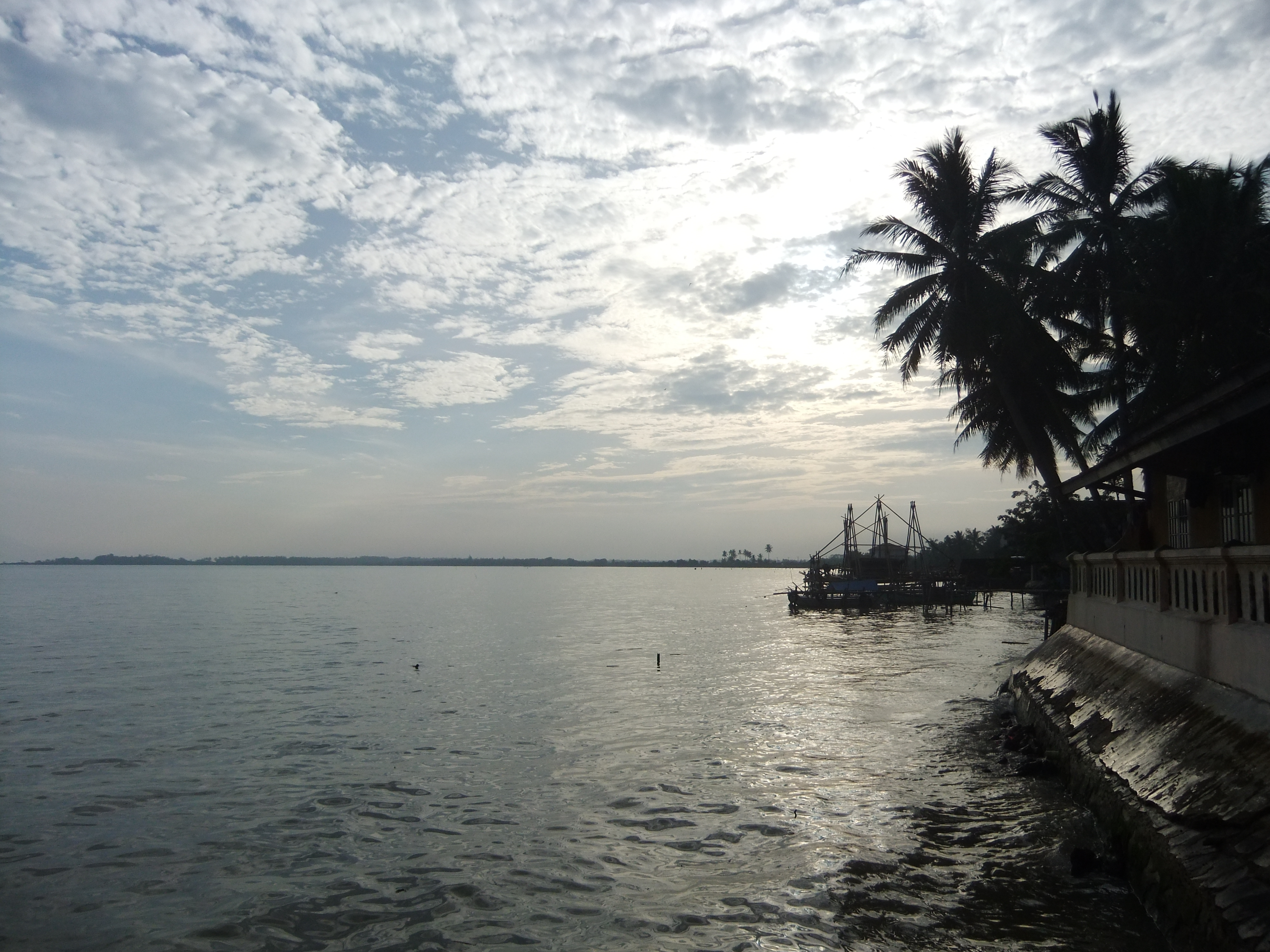 Coast of Banten at Labuan (western Java)